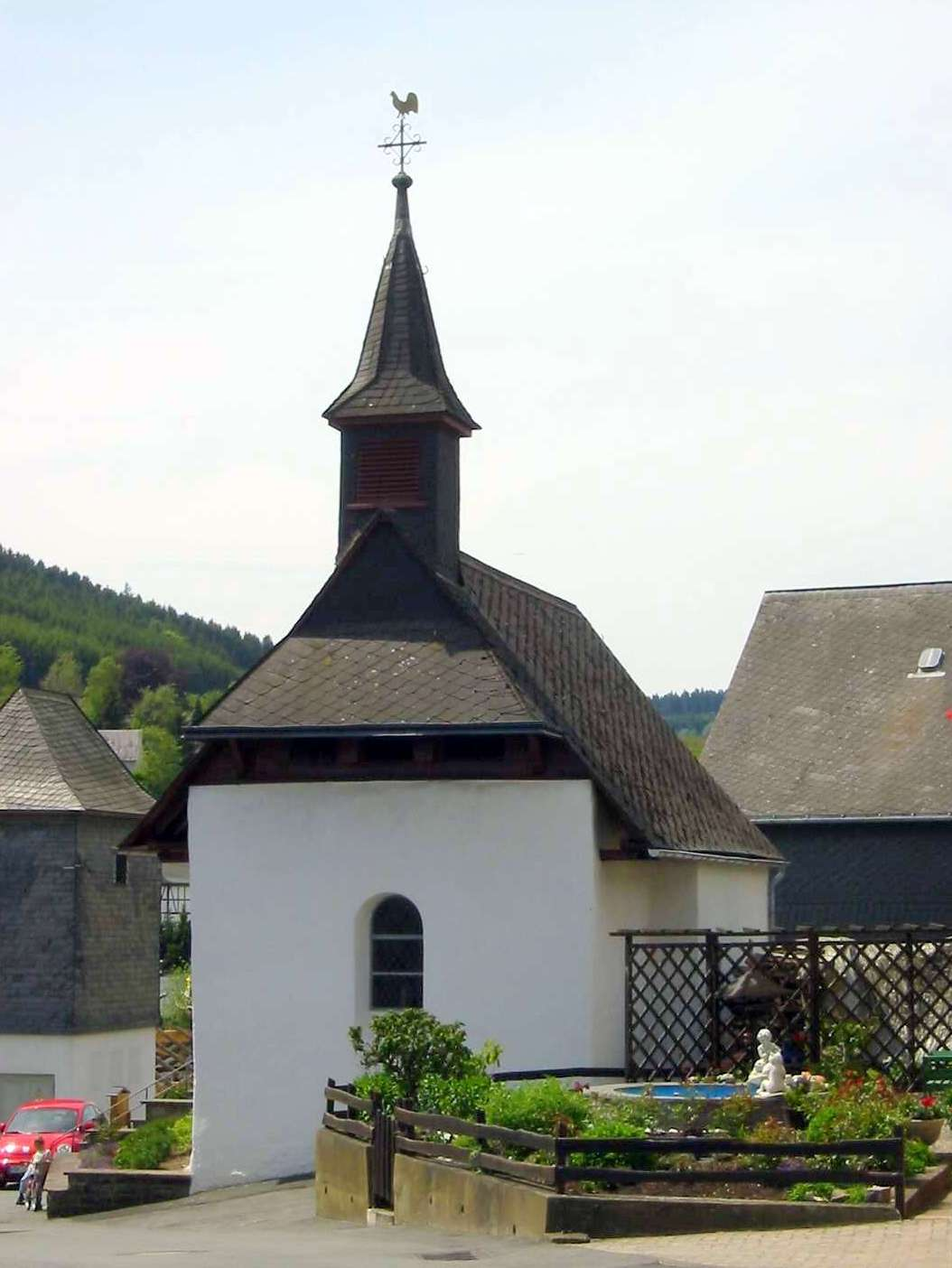 Dotzlar, Church